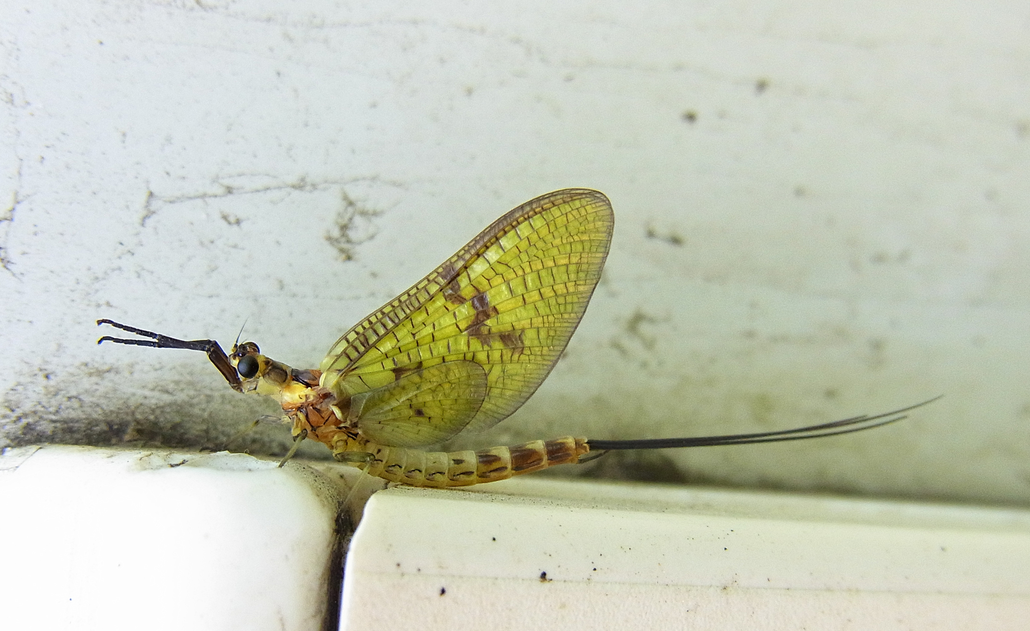 Ephemera danica male, subimago from Southern France, southwest of Millau at 2011-06-28